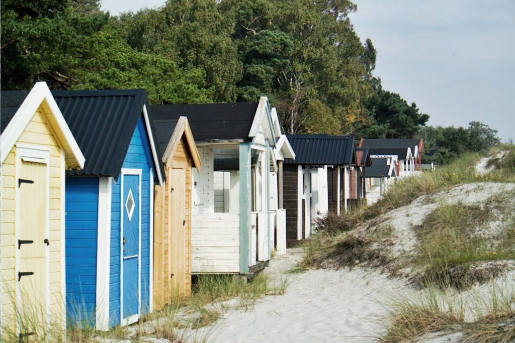 Bath huts in Höllviken, Sweden